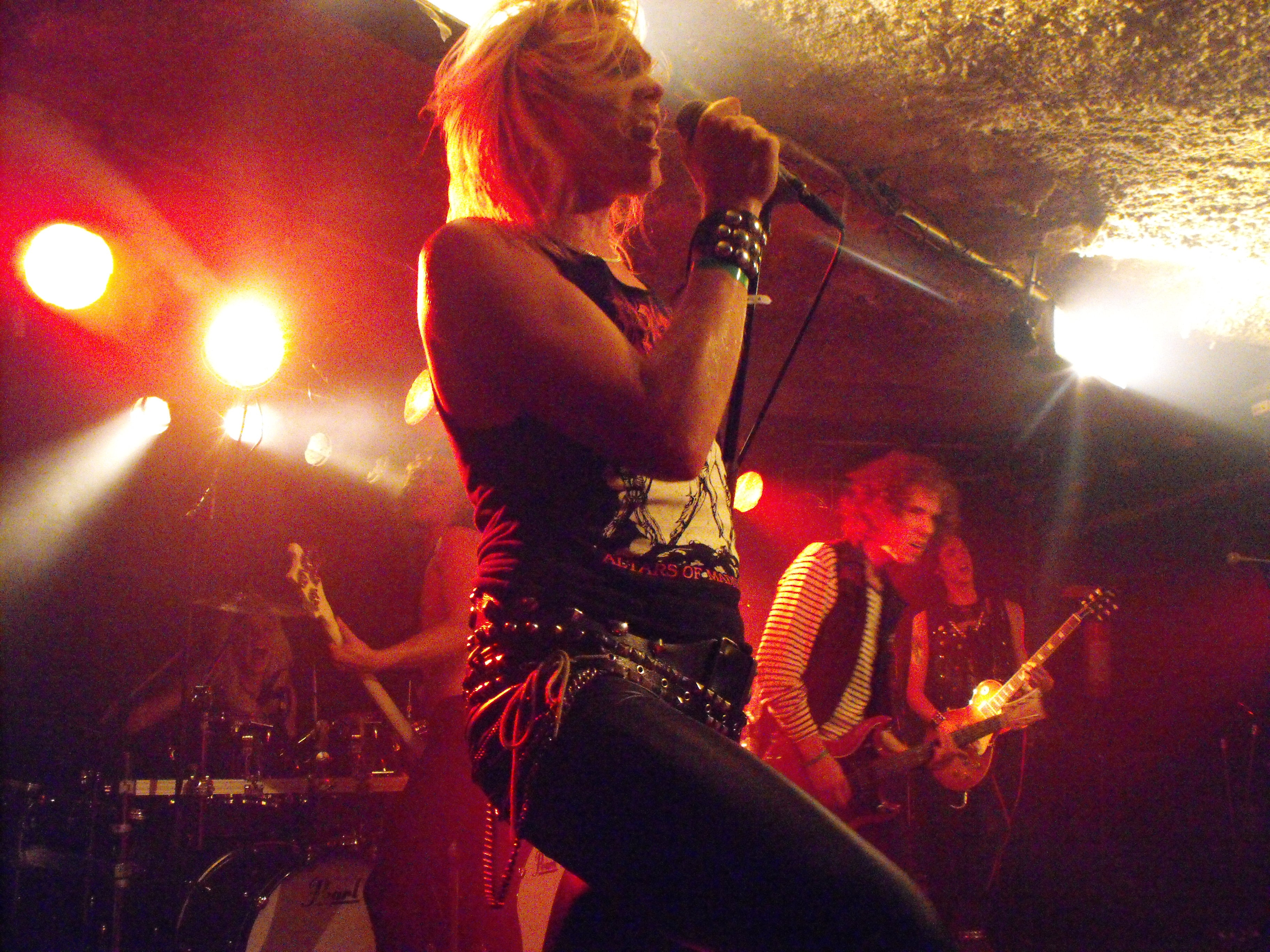 Enforcer performing live during the Hole in the Sky Festival in Bergen, Norway, August 2010.